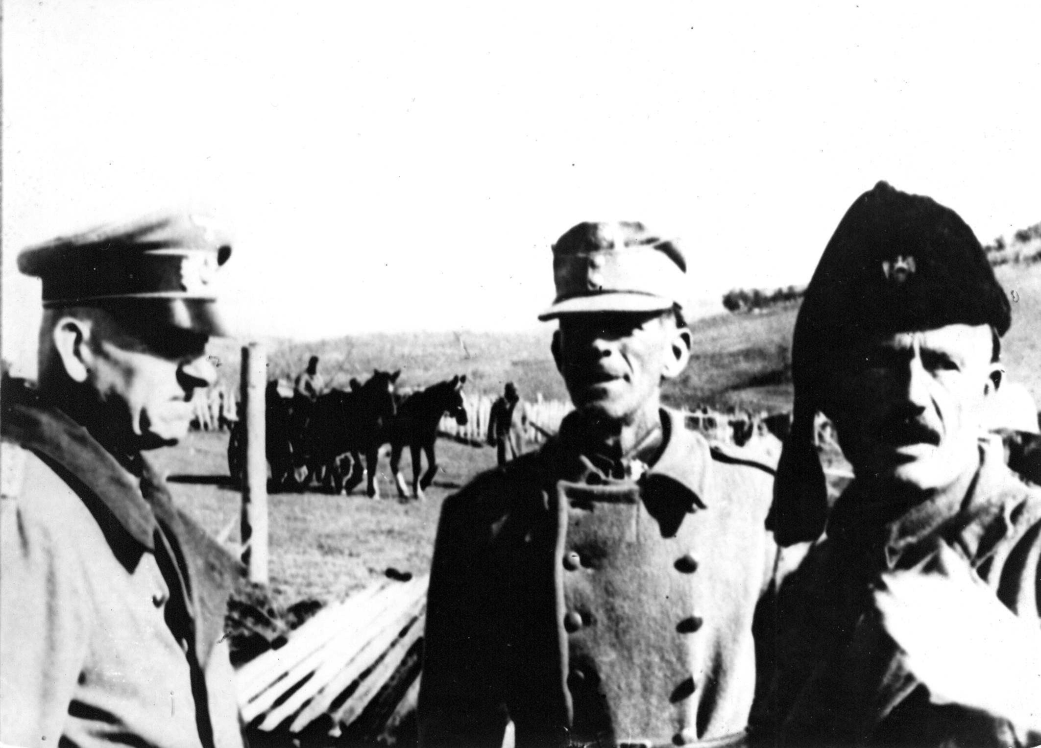 German General Major Friedrich Stahl stands alongside an Ustasa officer and Chetnik Commander Rade Radic in central Bosnia.